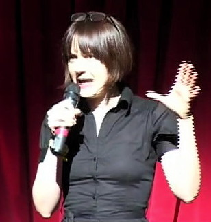 Image taken by me at the Hackney Empire, London, on 28th January 2007